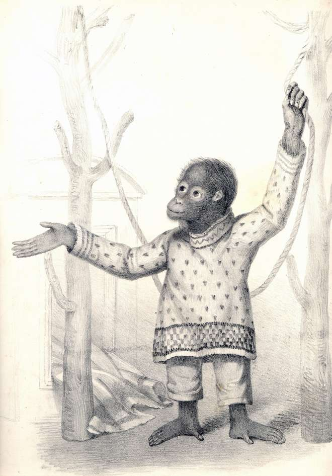 Portrait of Jenny, the first orangutan at London Zoo. Printed by W Clerk, High Holborn, in December 1837.